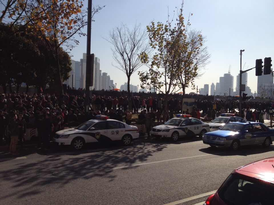 2014/2015 central Shanghai (The Bund area) stampede aftermath.